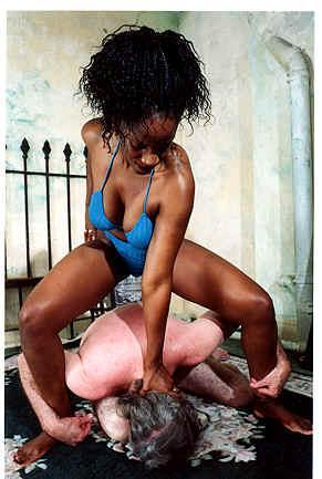 Female wrestler overpowers her hapless male opponent with a brutal smackdown. My own work 2007 gaynewyorker